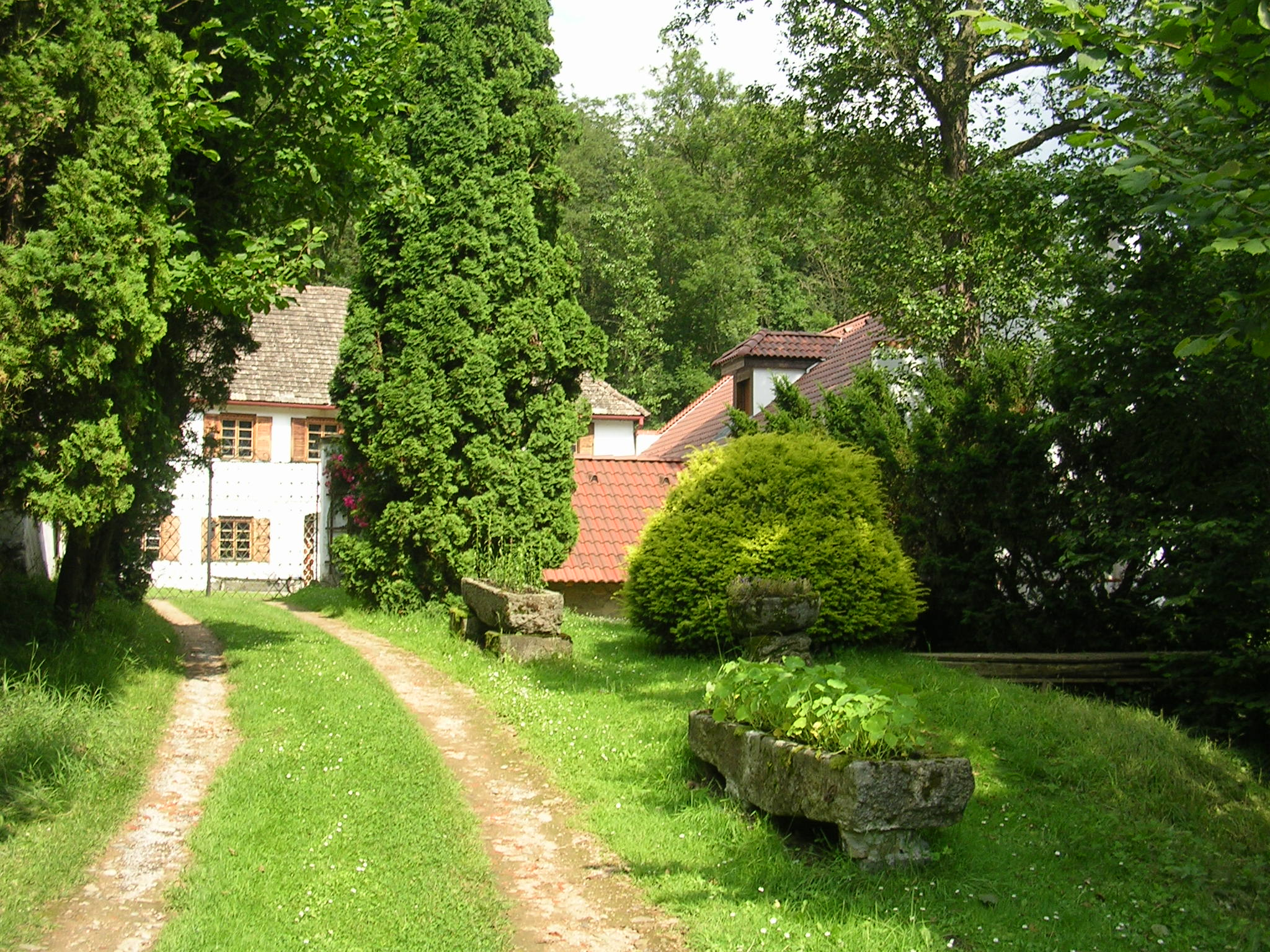 Svatý Jan, Příbram District, Central Bohemian Region, the Czech Republic.